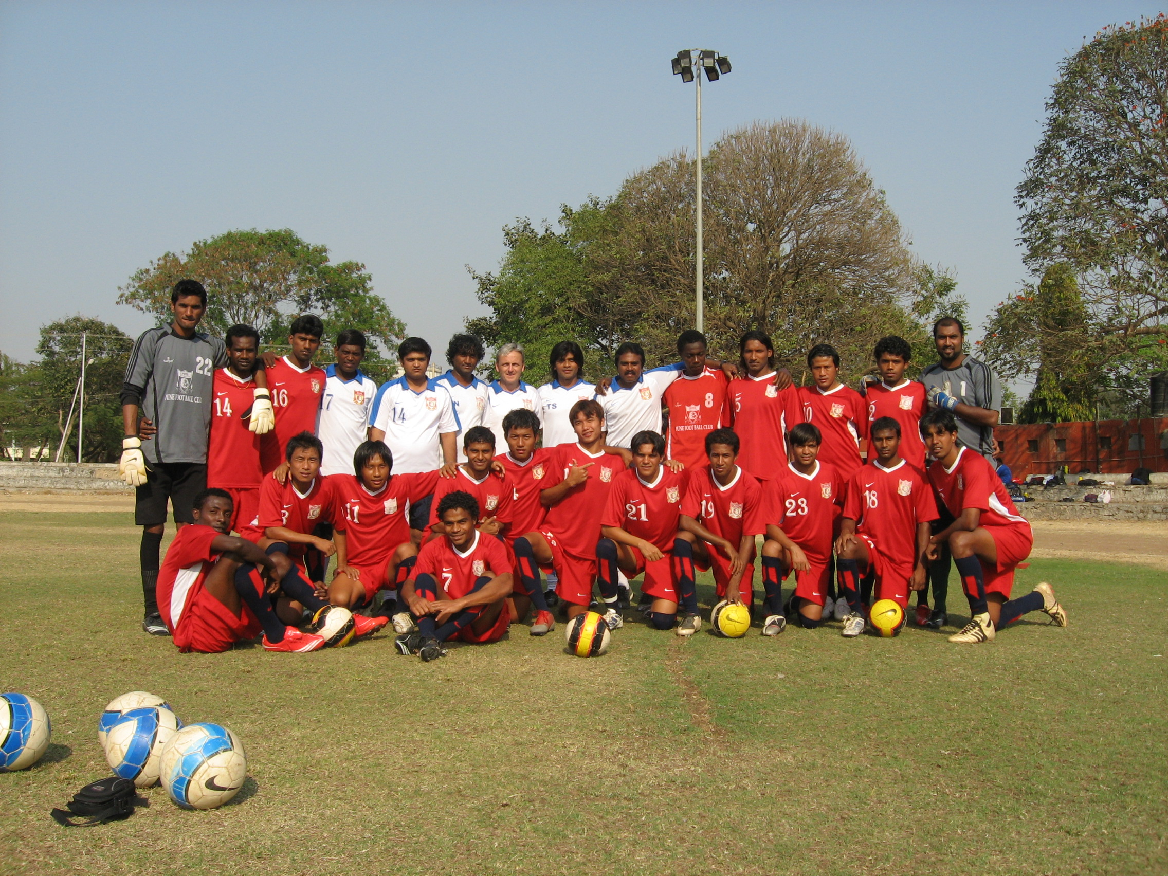 Team photo of the Indian Football team Pune FC